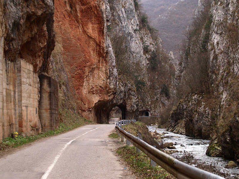 The Erma Gorge on Serbian Territory near Poganovo Monastery